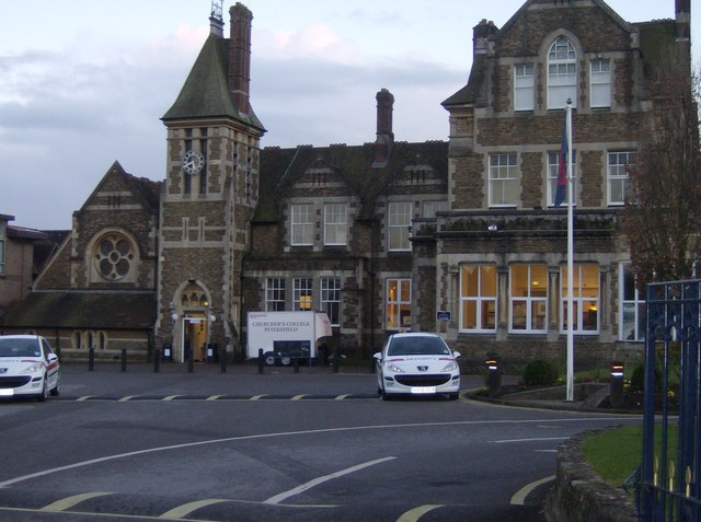 Churcher's College, Petersfield My old school. Taken from the front entrance on Ramshill.